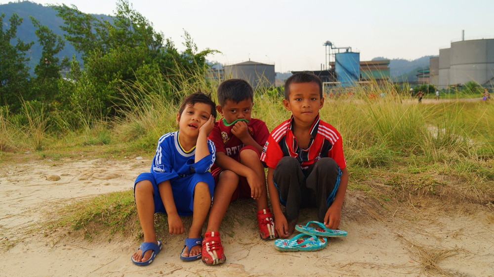 The children of the Tausug Refugees in Sandakan